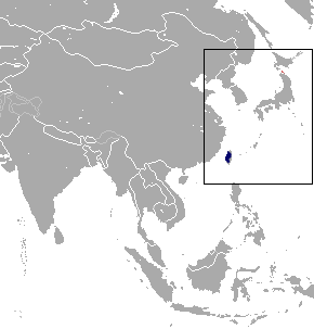 Formosan Rock Macaque (Macaca cyclopis) range (blue — native, red — introduced)